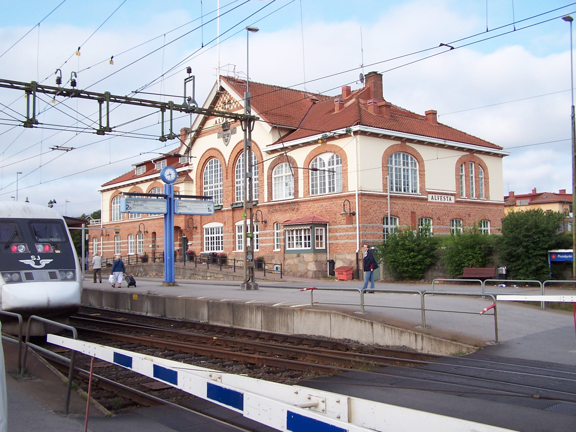 Alvesta Central station, Sweden.